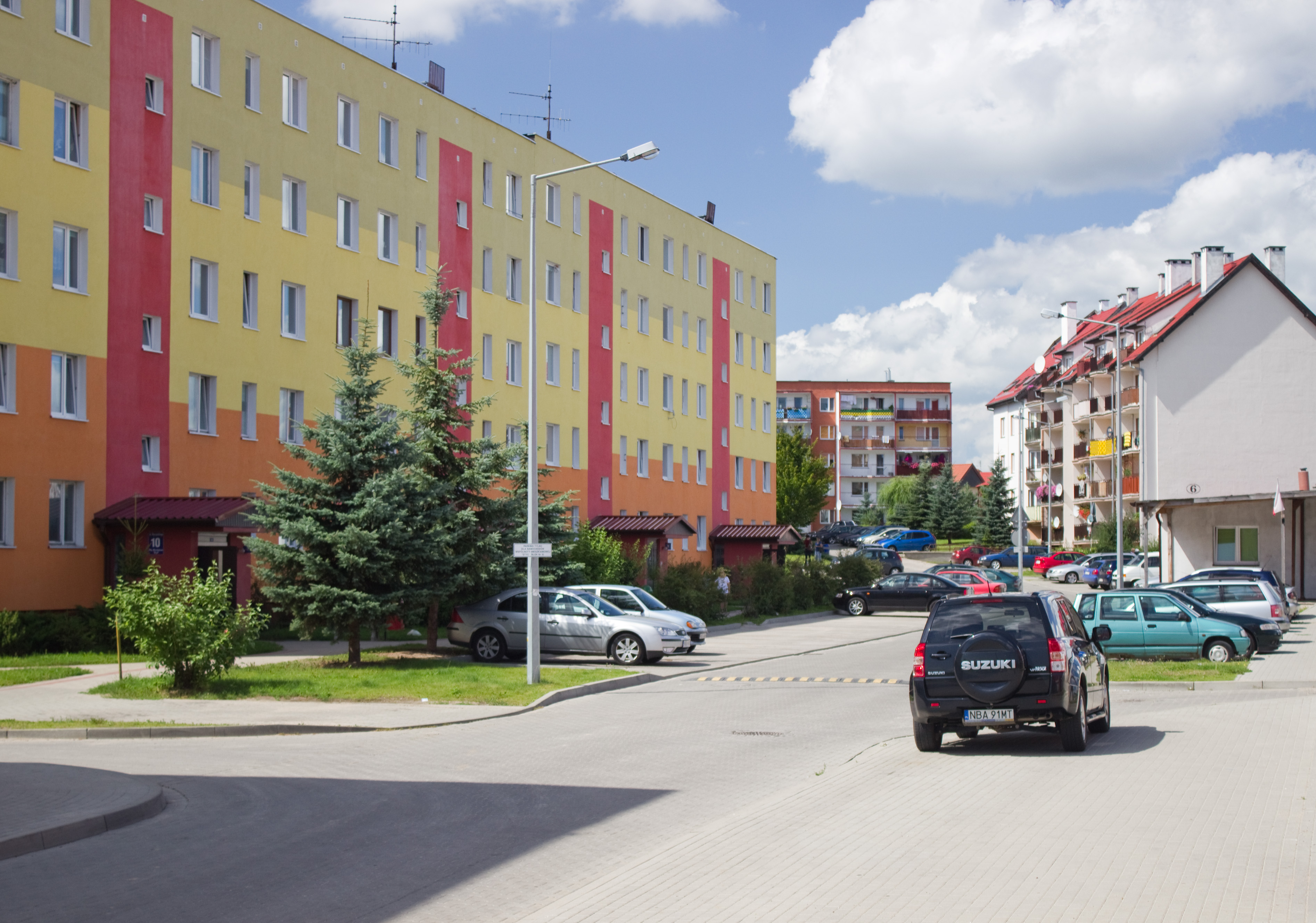 Street, Bartoszyce, gmina miejska, powiat bartoszycki, Warmian-Masurian Voivodeship